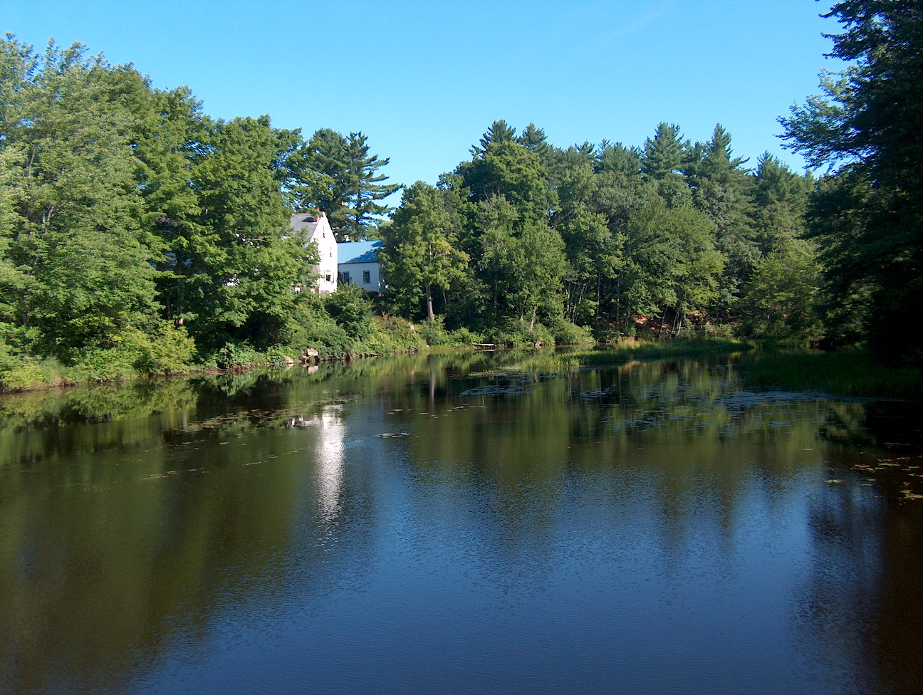 The Soucook River in Loudon, New Hampshire. Photo by Ken Gallager.